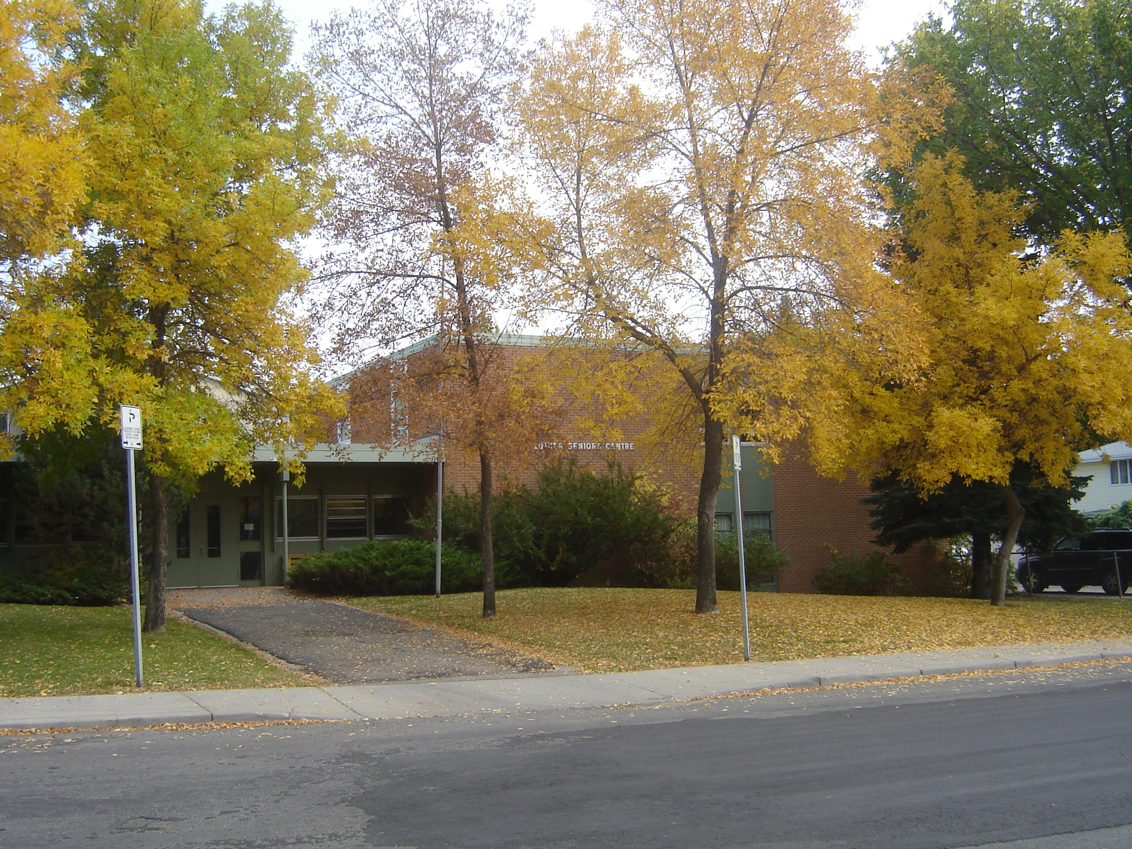 The original Richmond Heights Public school in Richmond Heights Saskatoon now the Luther Seniours Centre